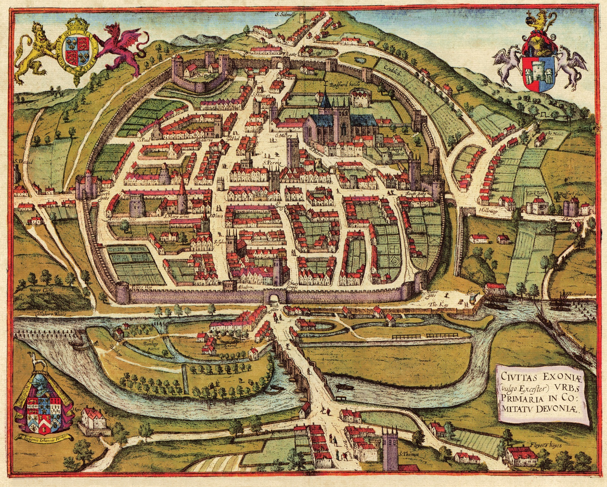 A drawing of Exeter entitled Civitas Exoniae (vulgo Excester) urbs primaria in comitatu Devoniae in "Civitates Orbis Terrarum", Volume VI, 1617. The work of 6 volumes contains 546 prospects, bird-eye views and map views of cities from all over the world, edited by Georg Braun (1541-1622), a cleric of Cologne, and largely engraved by Franz Hogenberg, published at Cologne, 1572-1617, first volume published in Cologne in 1572, sixth and the final volume appeared in 1617.[1] This map of Exeter Re-published in Lysons, Daniel & Lysons, Samuel, Magna Britannia, Vol.6, Devonshire, London, 1822, p.178[2] Identified on "List of Plates" as "from an old plan in Braun's Civitates Orbis Terrarum 1618". In the bottom left-hand corner are shown the arms of John Hooker (c. 1527–1601) (alias John Vowell) of Exeter, an English historian, writer, solicitor, antiquary, and civic administrator. From 1555 to his death he was Chamberlain of Exeter. He was twice MP for Exeter in 1570/1 and 1586 (Insignia Johannis Hooker, "Armorials of John Hooker"). At top right are the arms of the City of Exeter. At top left the royal arms of Queen Elizabeth I of England (1558-1603).